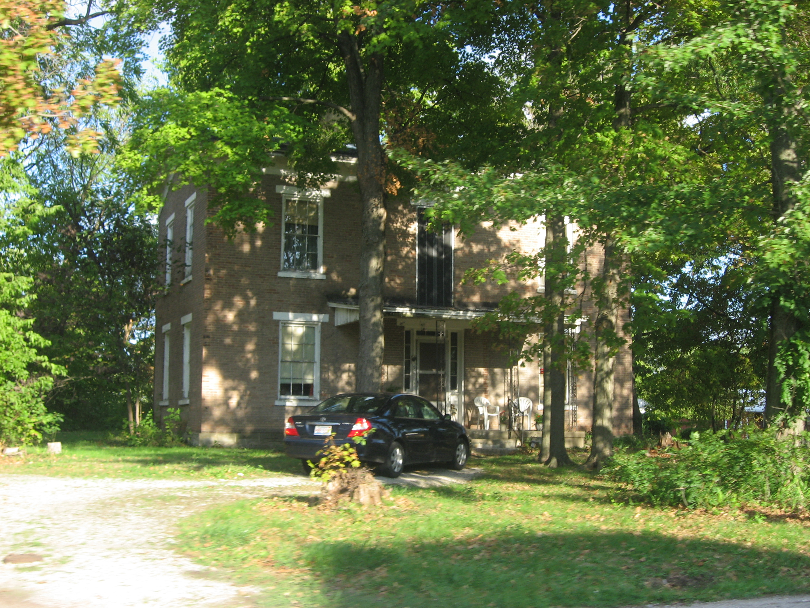 Front of the Paine House, located on the eastern side of Church Street at the Fourth Street intersection in Flora, Illinois, United States. Built in 1857, it was the home of Albert Bigelow Paine from 1873 to 1888, and it is listed on the National Register of Historic Places.